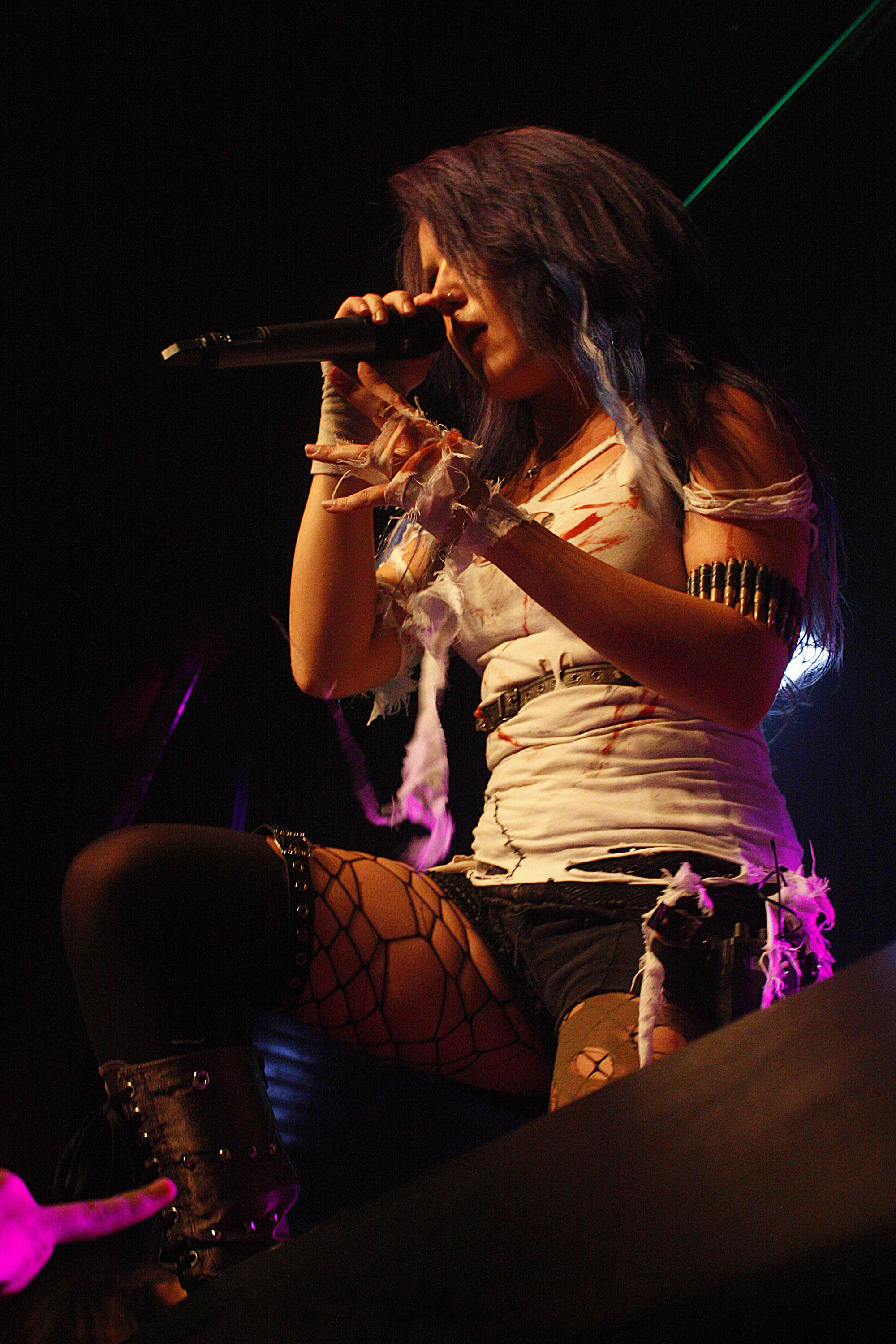 The Agonist